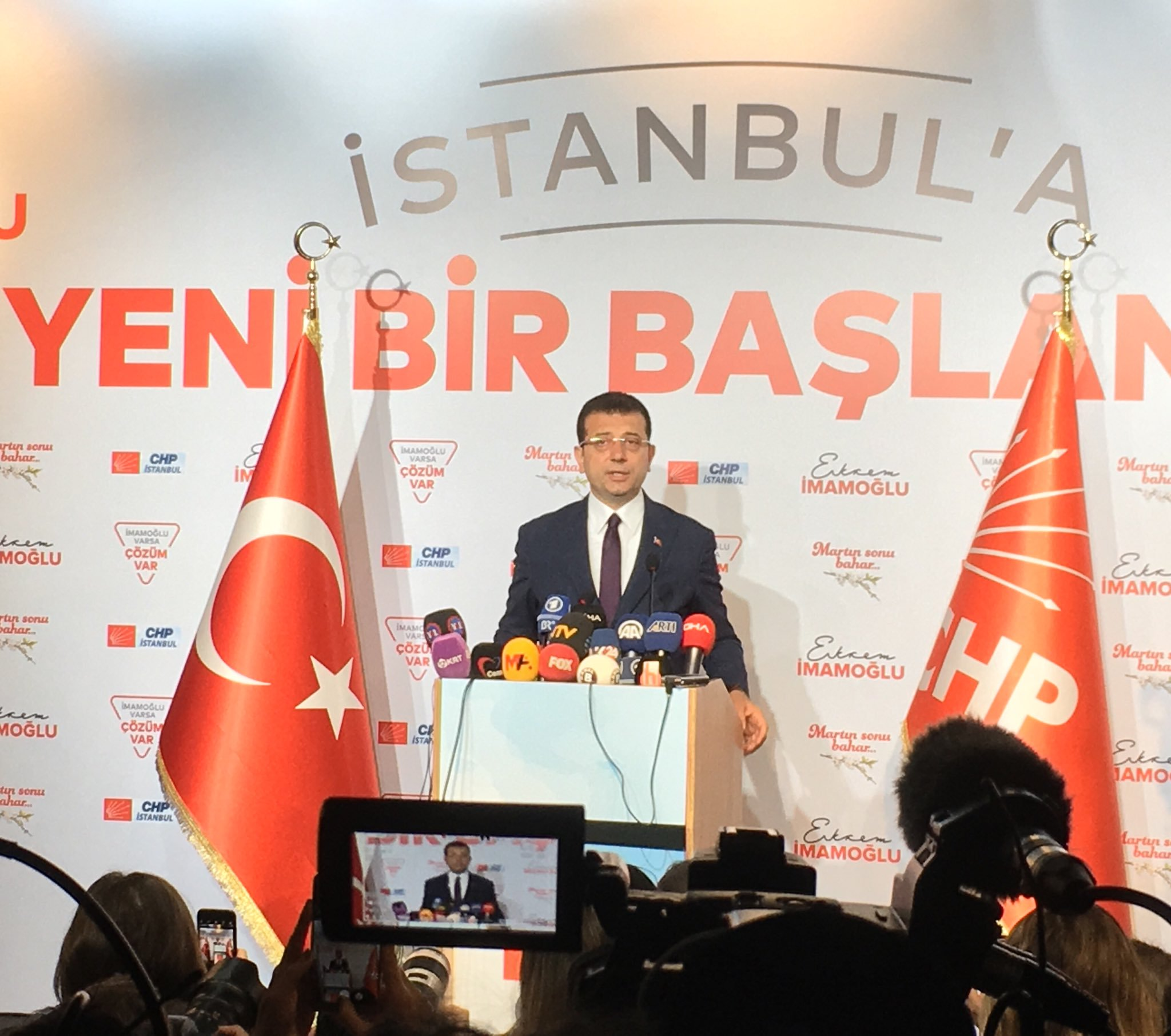 Ekrem İmamoğlu press conference, April 3, 2019. Image donated to Wikimedia UK by Mark Lowen, former BBC correspondent in Turkey.